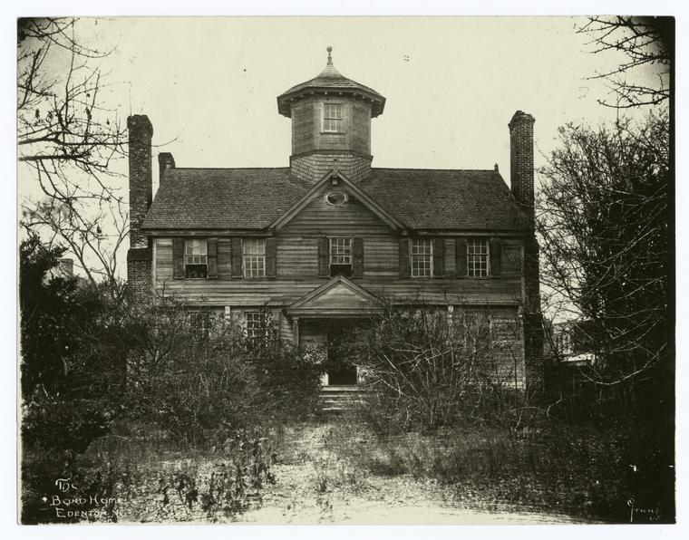 View of a home in Edenton, Chowan County, North Carolina, entitled "The Bond Home," or "The House with the Cupola." The New York Public Library Digital Collection.